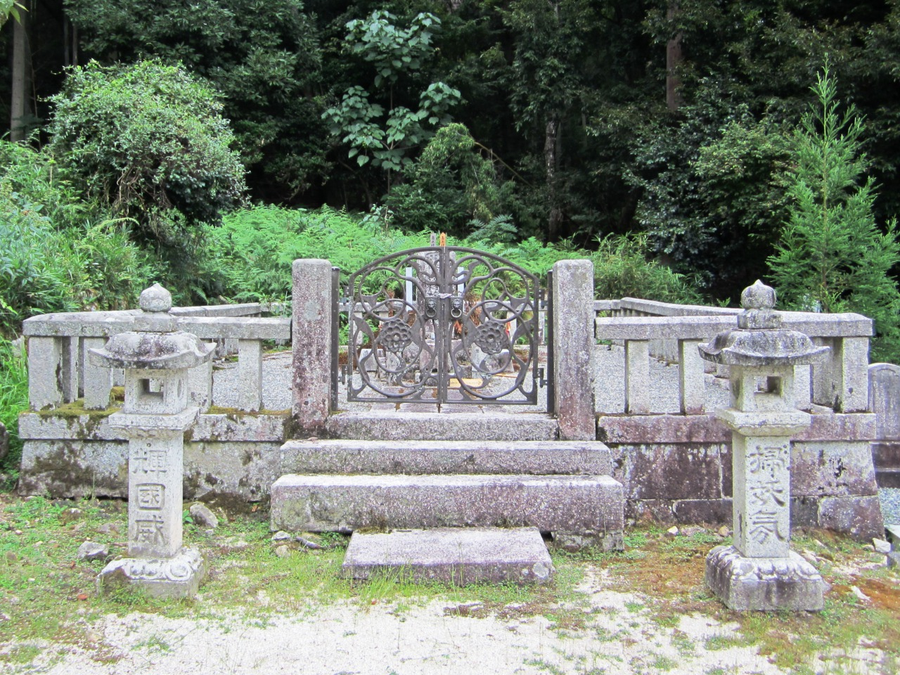 The grave of Kondō Juzō at Zuisetsuin in Takashima, Shiga.